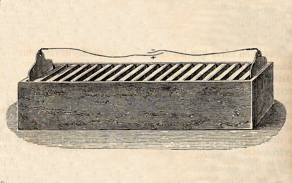 19th-century illustration of a trough battery.